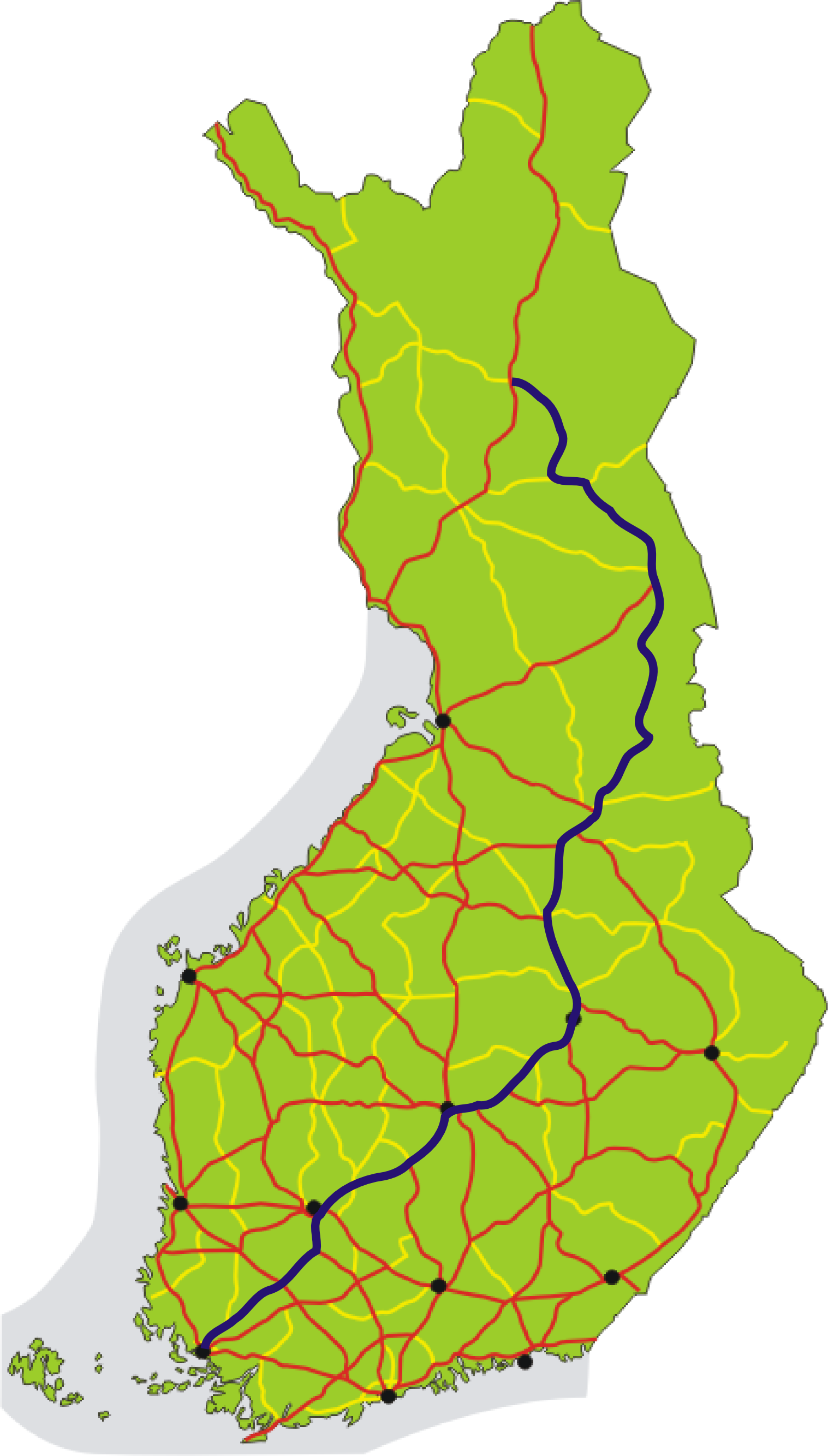 Map of European route E63 in Finland, shown in dark blue. E63 goes from Sodankylä to Turku in 1,100 kilometres.